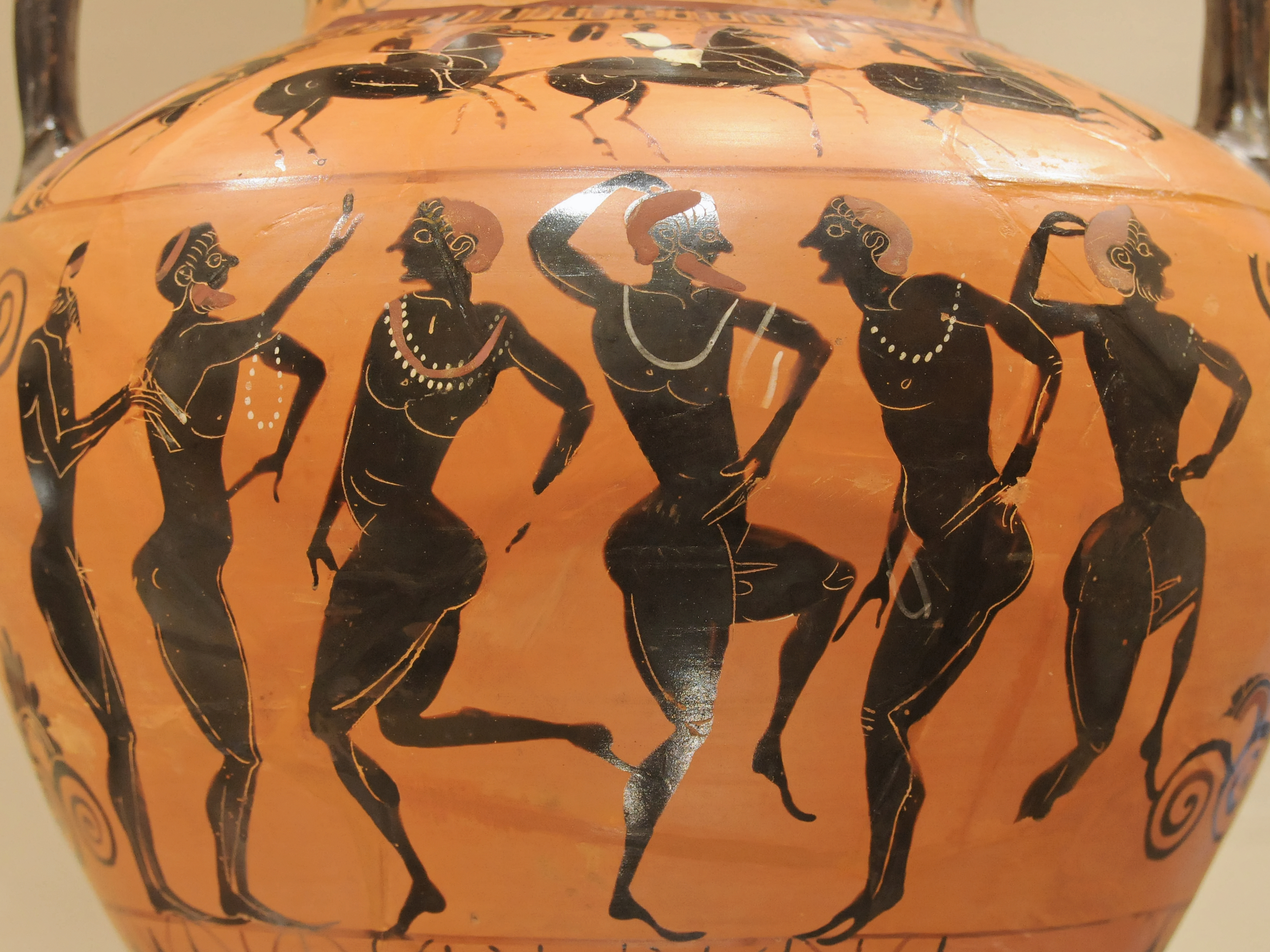 On the shoulder: Horsemen between youths, some draped. On the body: side A with Menelaos recovering Helen, side B with komos scene, flute players and dancers.back view